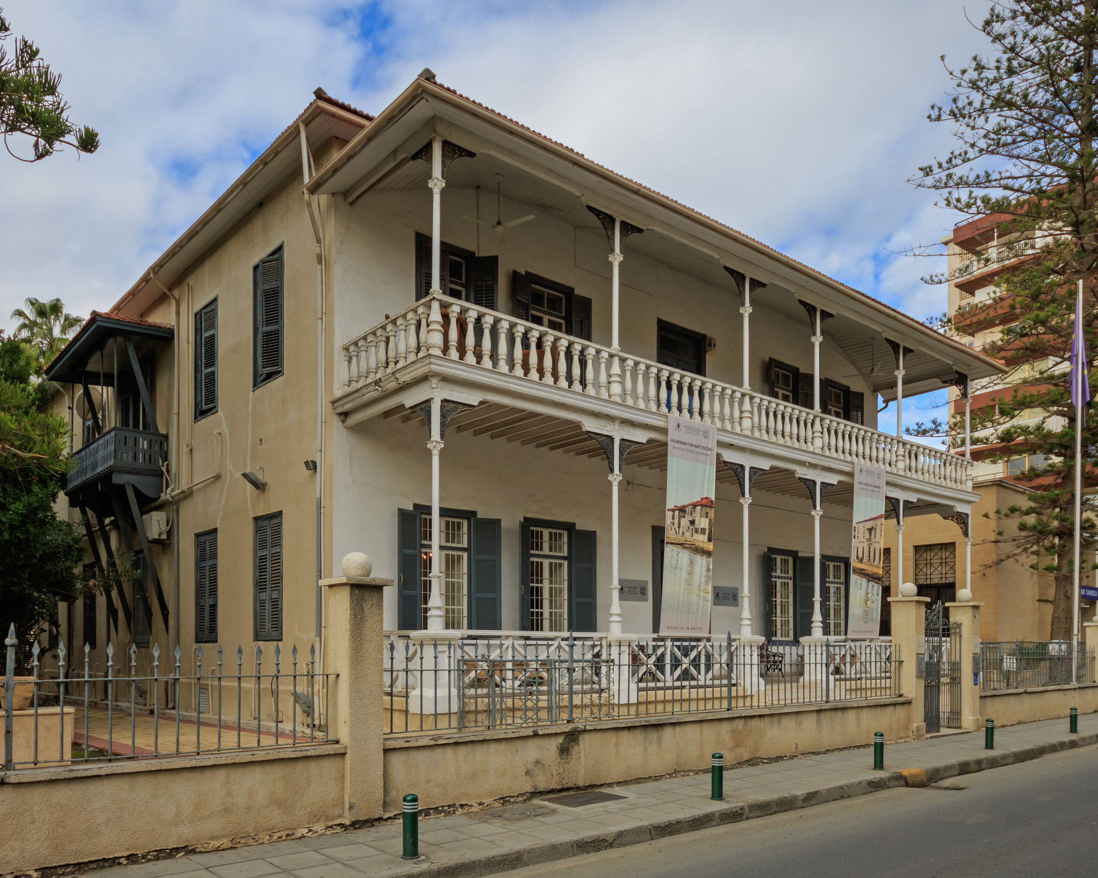 Building of the Pieridis Museum of Antiquities in Larnaca, Cyprus